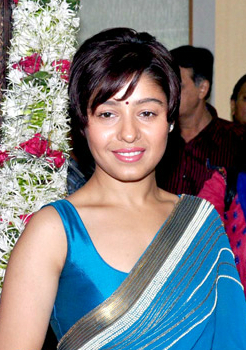 Sunidhi Chauhan at at Dadasaheb Phalke Awards 2014